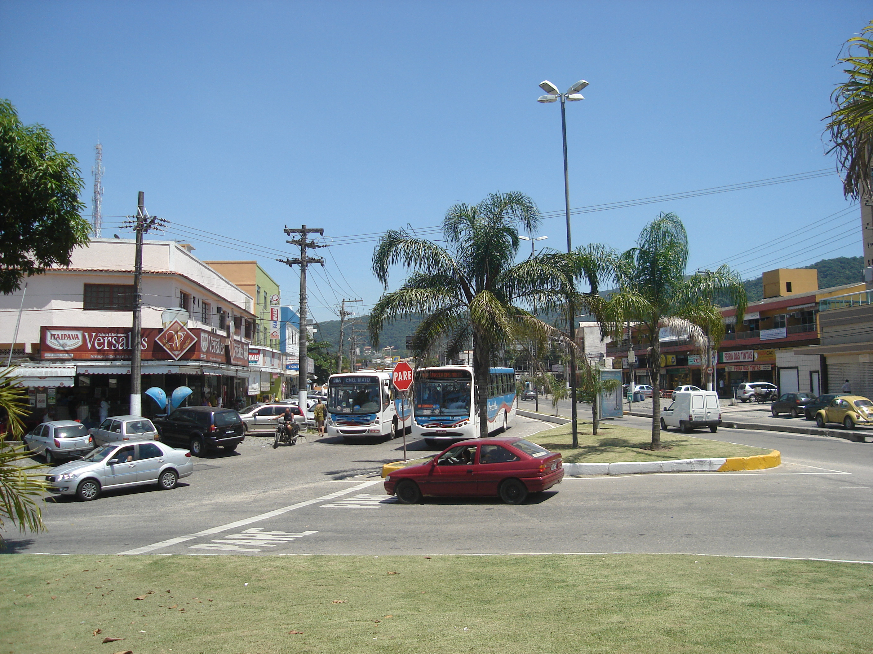 Neigborhood Maravista, in Niterói - RJ, Brazil.